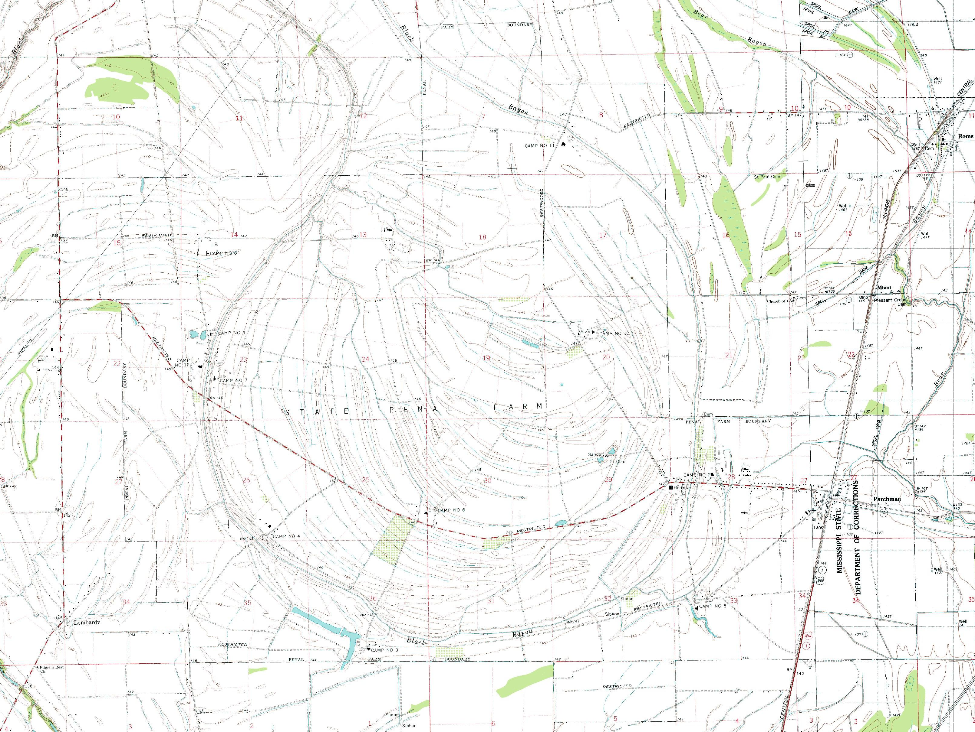 USGS topographic map of Mississippi State Penitentiary in Mississippi, United States